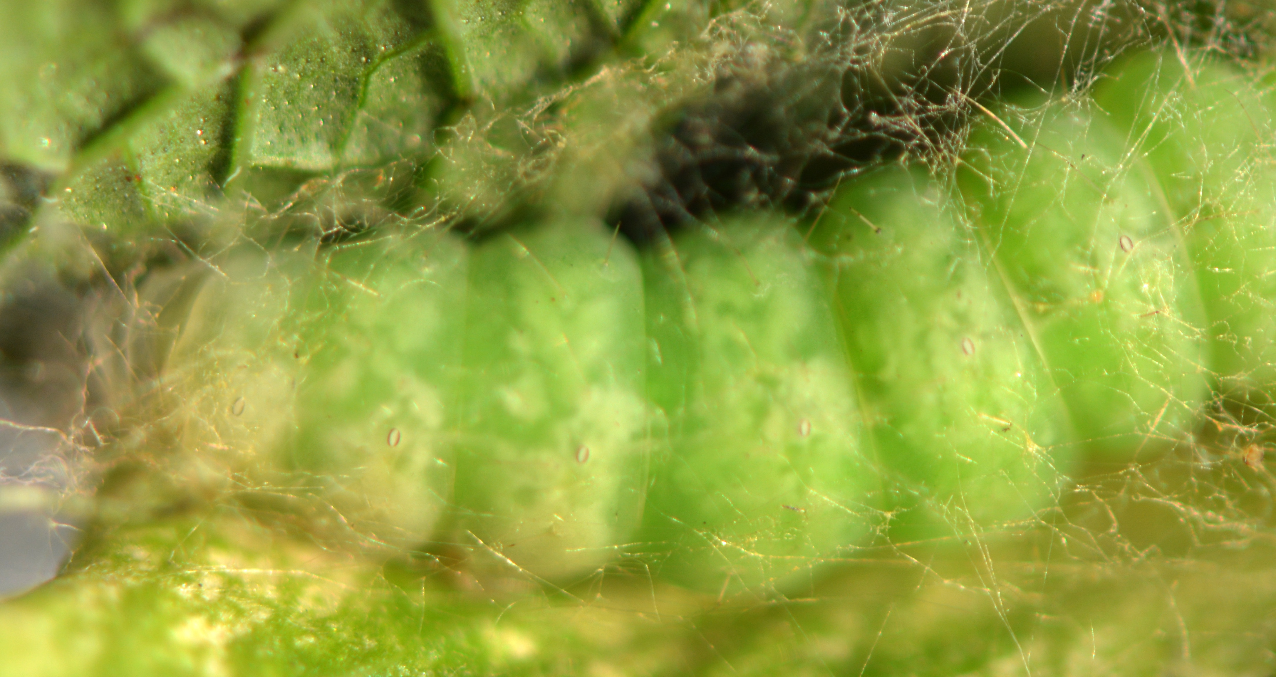 Ctenoplusia accentifera (or Plusie of Mint) ; caterpillar preparing the cocoon in which it will produce (a few hours later) her chrysalis.